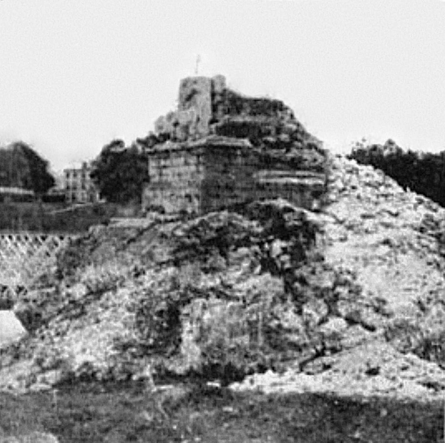 The Boyne Obelisk in the aftermath of its destruction on 31 May 1923